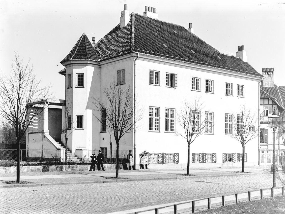 Stockholms Plads 5 - npw Hjalmar Brantings Plads - in Copenhagen, Denmark